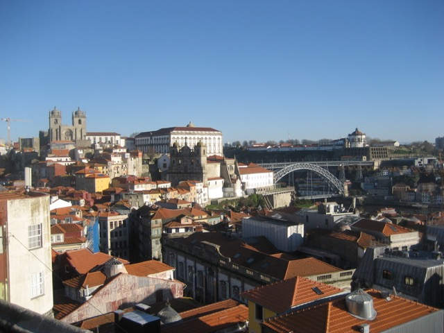 View from Miradoura da Vitoria